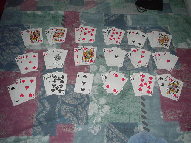 The layout at the start of the game of "Three Shuffles and a Draw." I took a picture of this just now using my digital camera. Captioned As { }